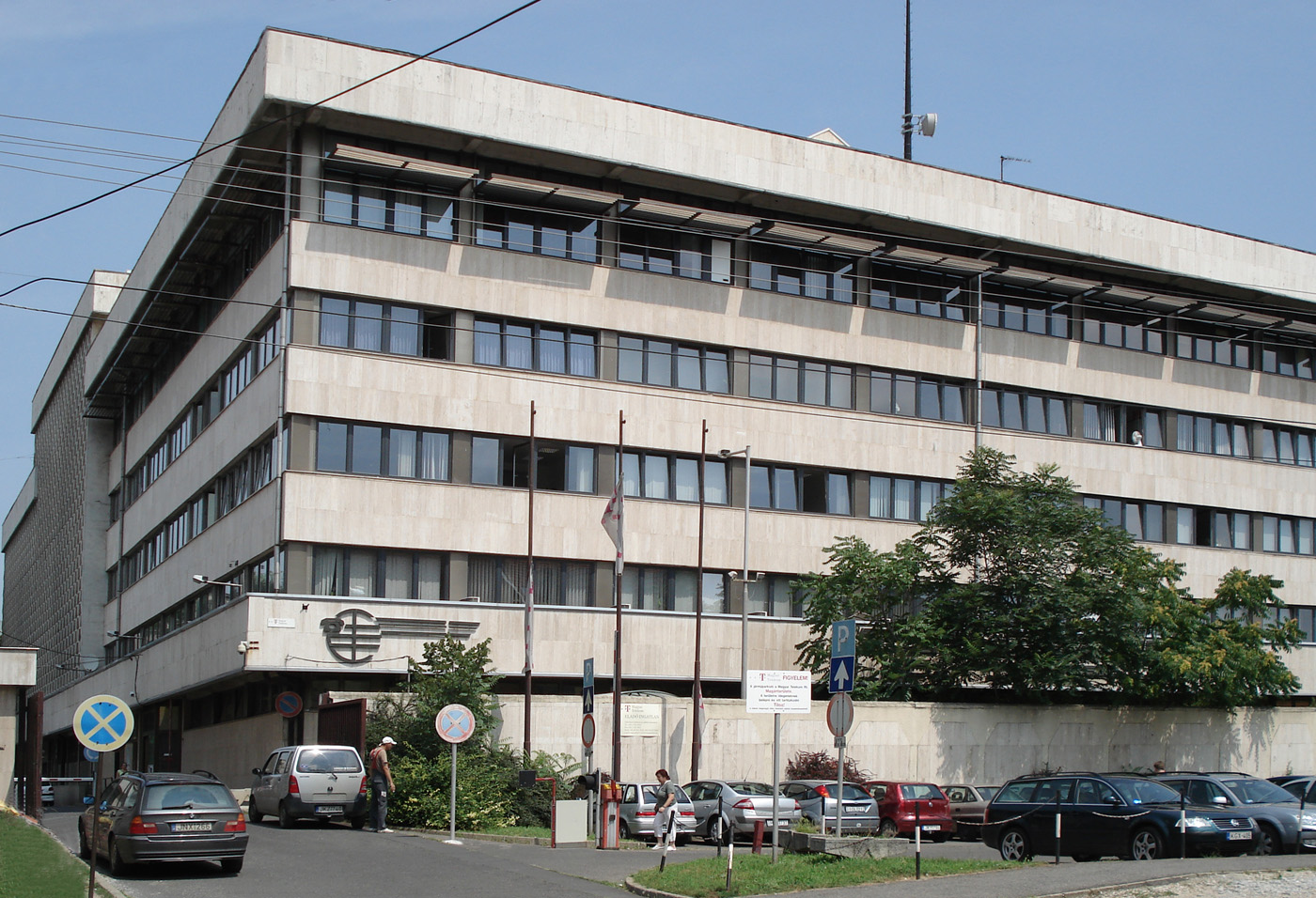 Building of Hungarian Telekom, Miskolc, Hungary